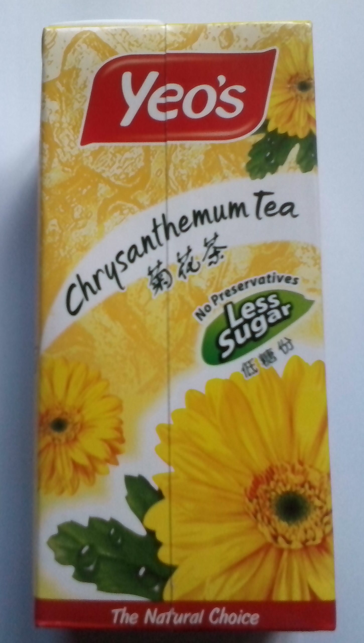 A large pack of Chrysanthemum tea in Malaysia and Singapore.